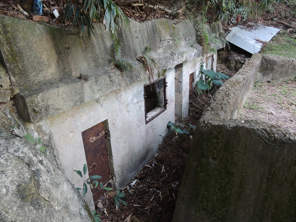 West Brigade Headquarters south bunker